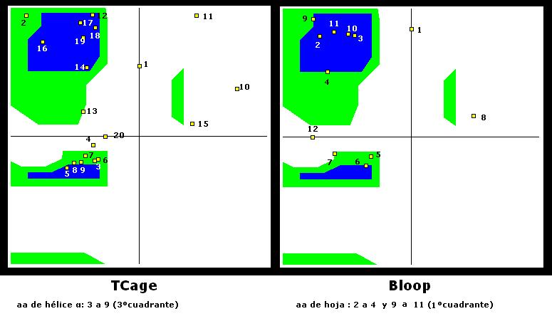 Ramachandran graphic TCage